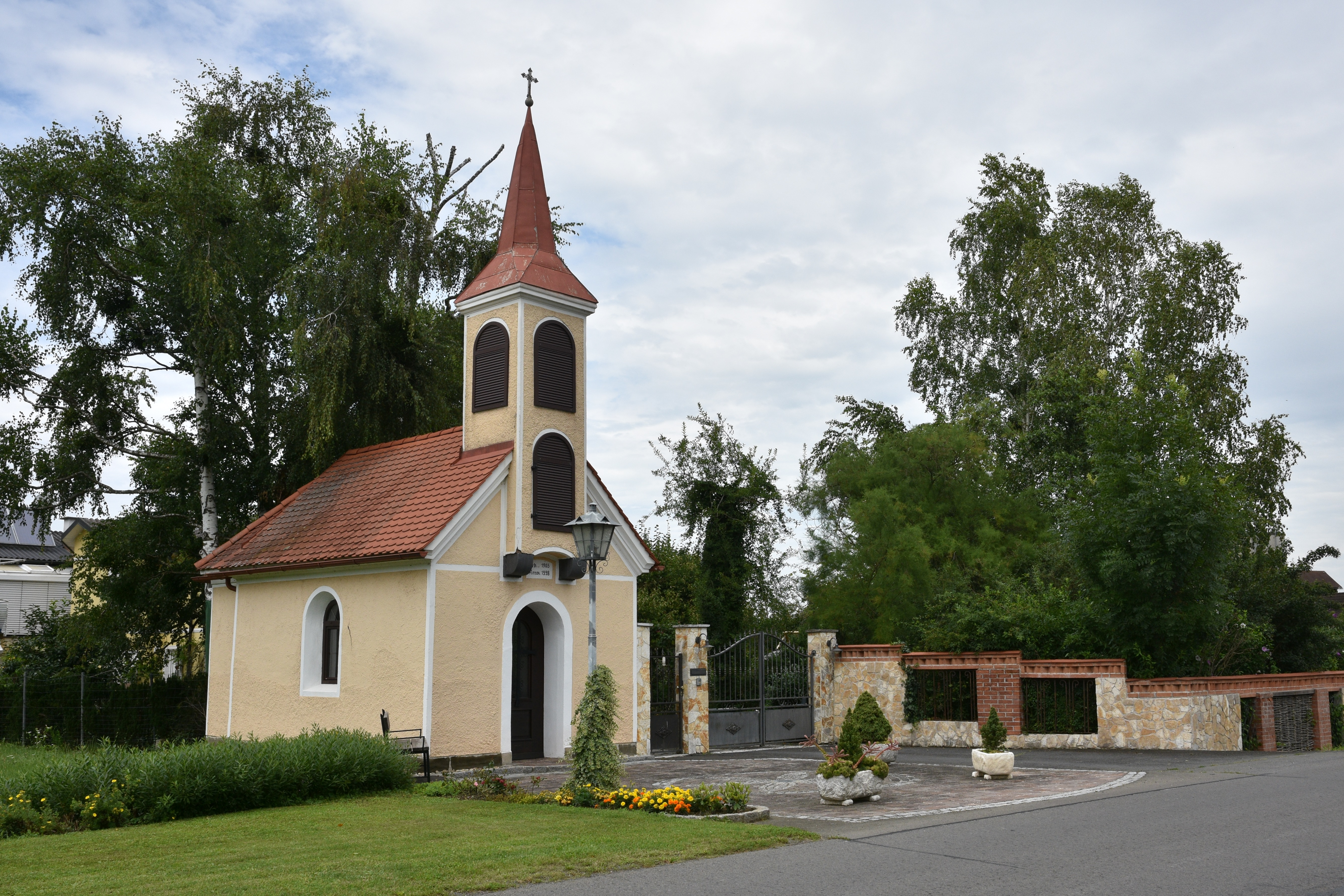 Chapel Pertlstein